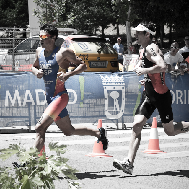 Processed with LR.